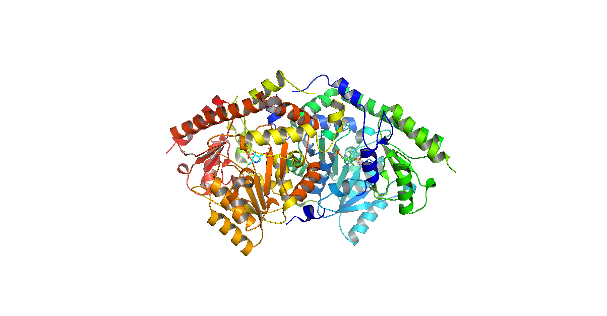 ACS dimer white background